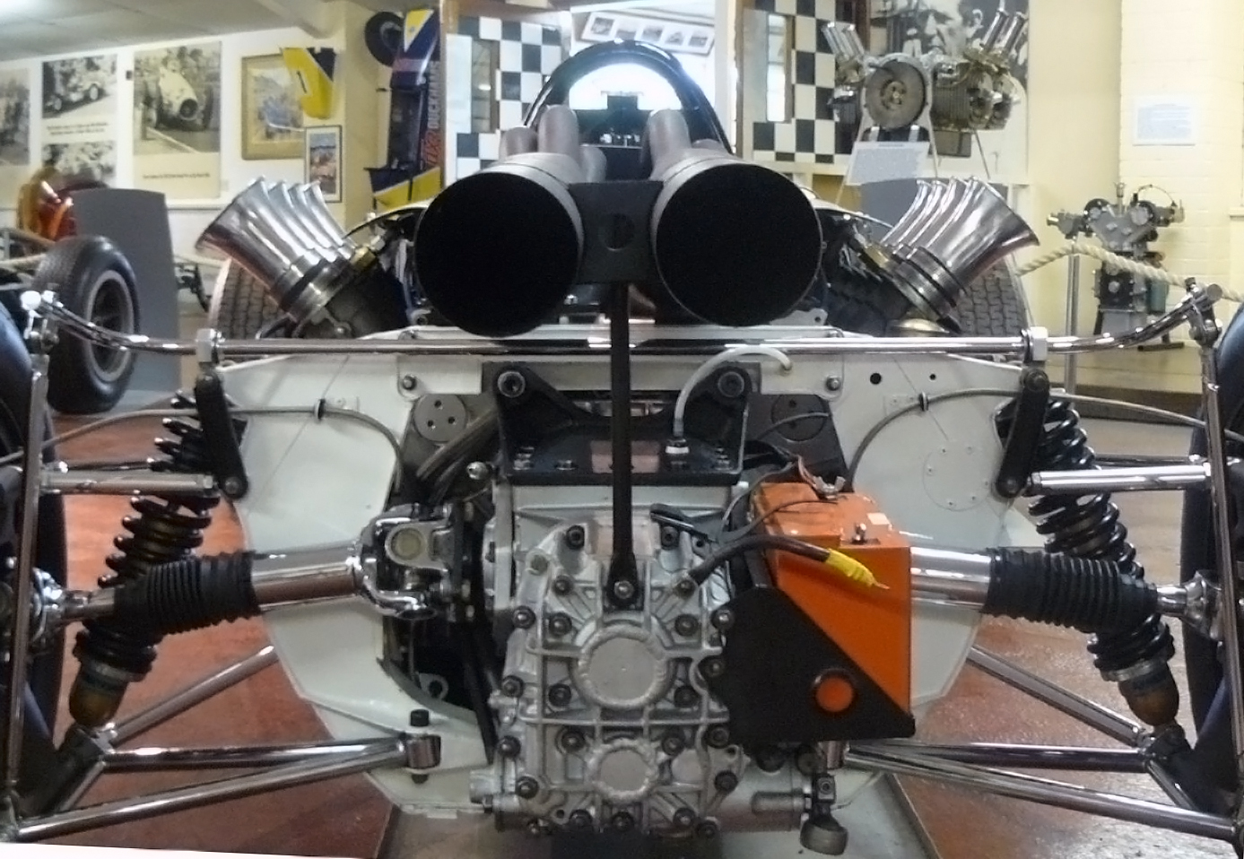 Rear end view of the 1966 McLaren M2B Formula One car, showing the transaxle gearbox, driveshafts and suspension details. Image rotated, cropped and denoised by Pyrope.